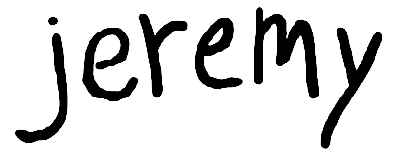 Pearl Jam Jeremy Logo from the videoclip